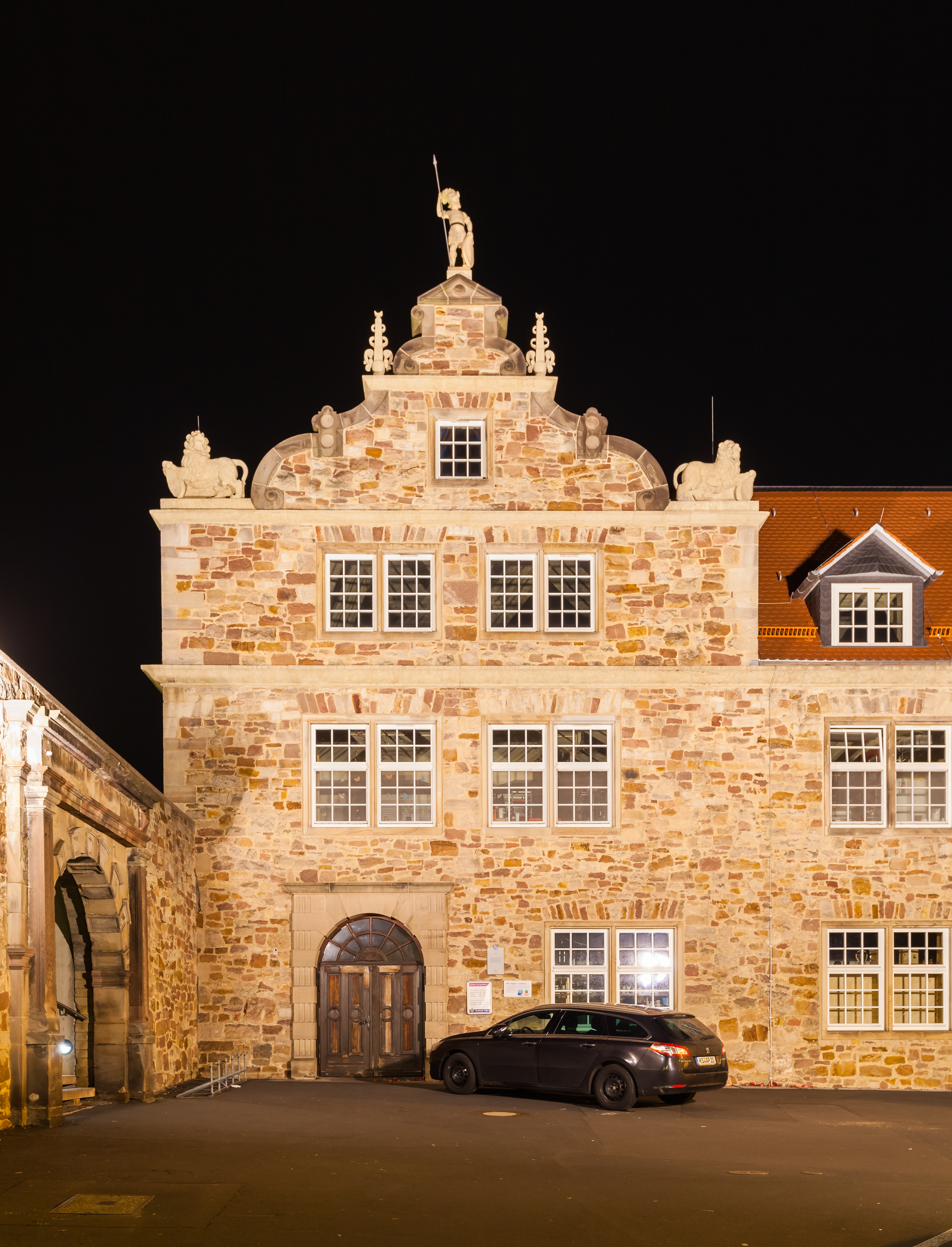 Market, Kassel, Germany